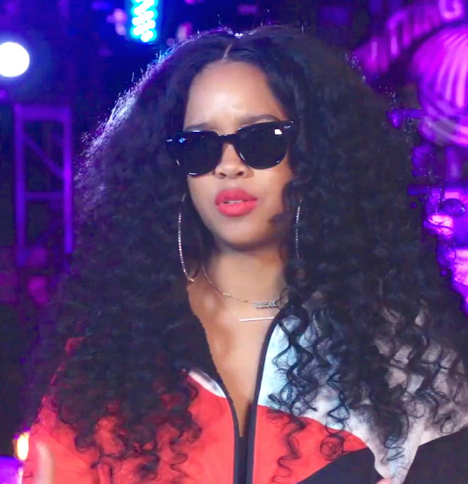 H.E.R. for MTV International